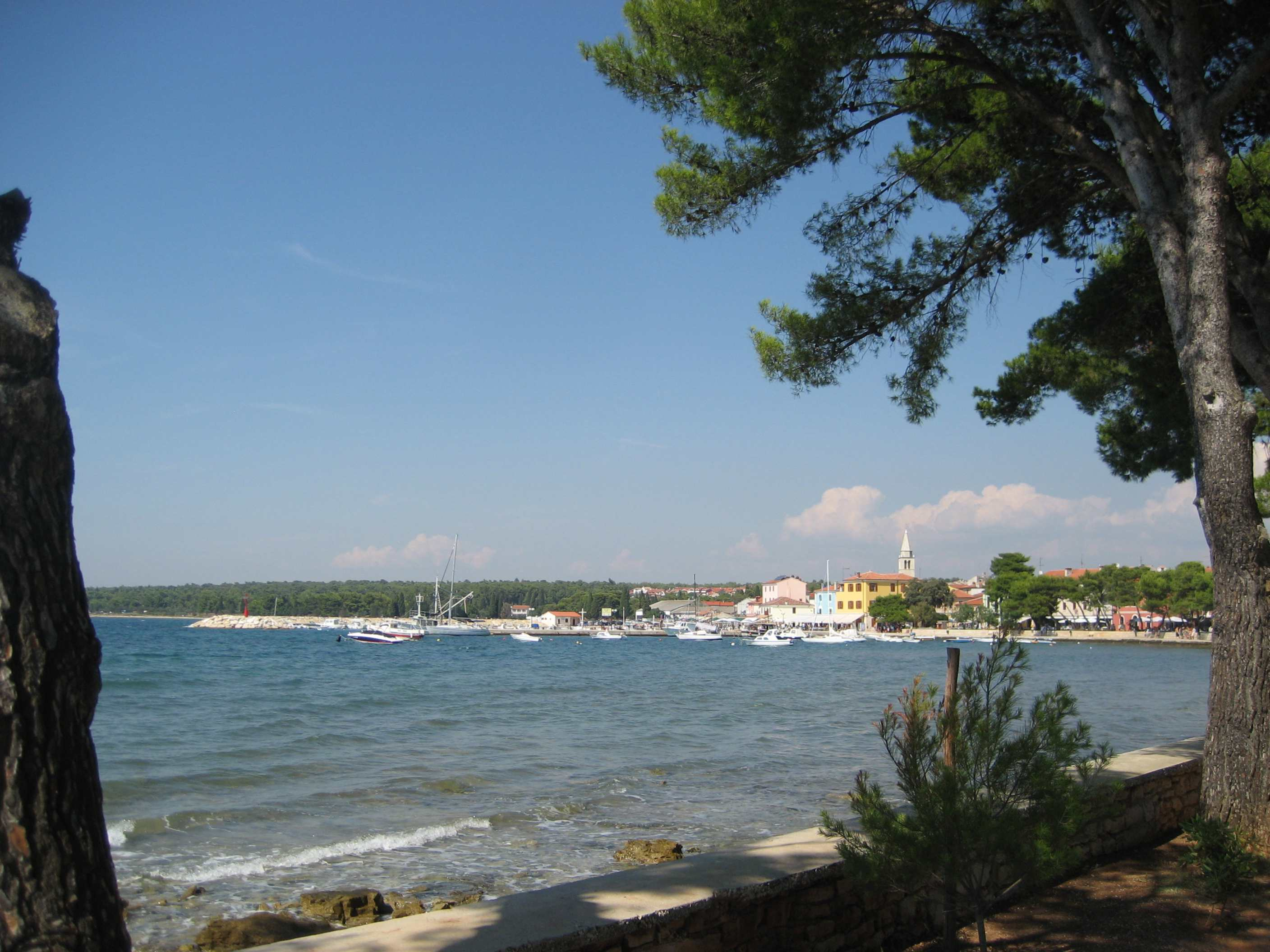 Fazana, Croatia